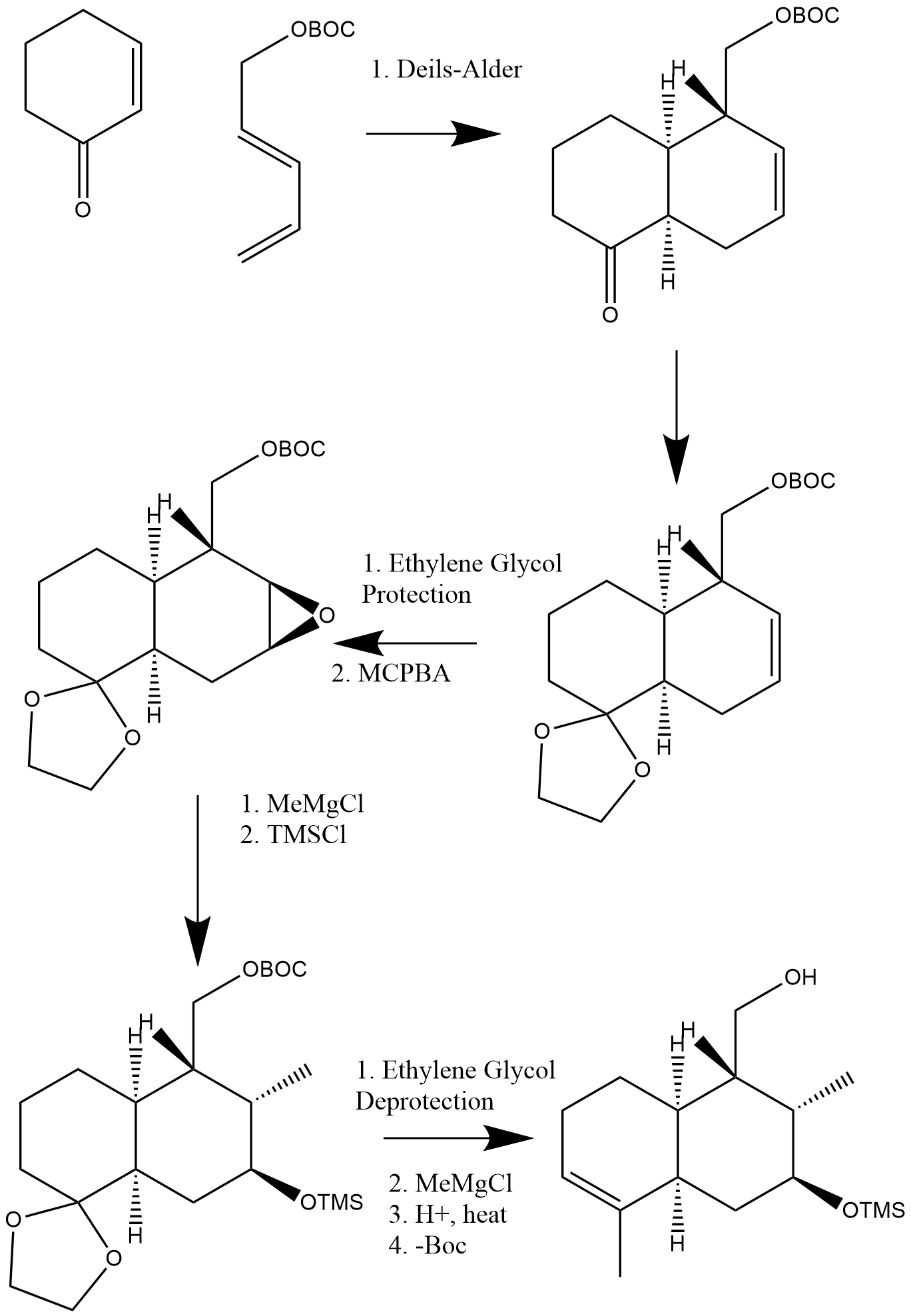 ChemDraw scheme part 1 of synthesis